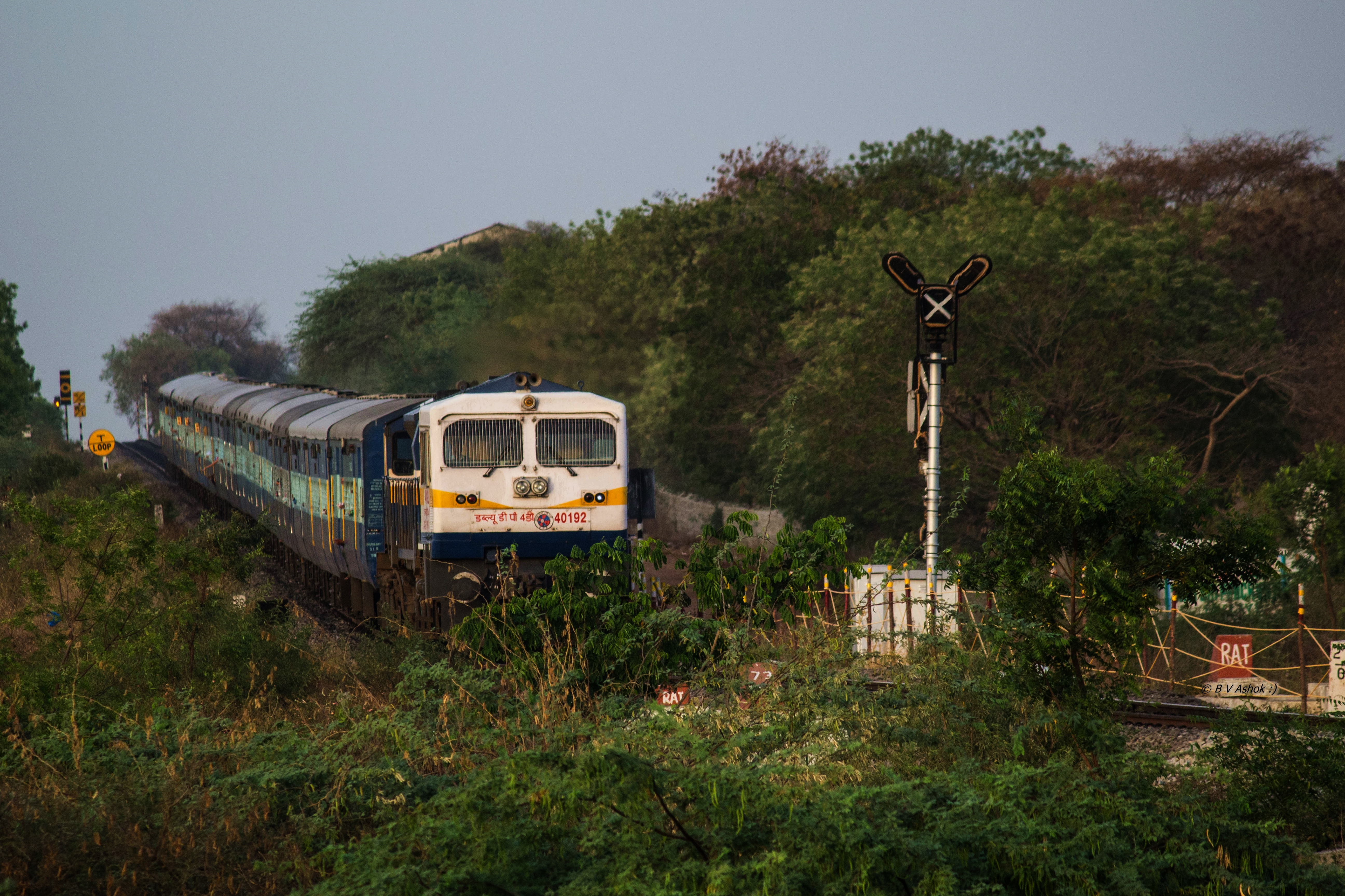 GY WDP-4D 40192 descending down the gradient towards Umdanagar with 17027 Secunderabad - Kurnool City Hundry Express....